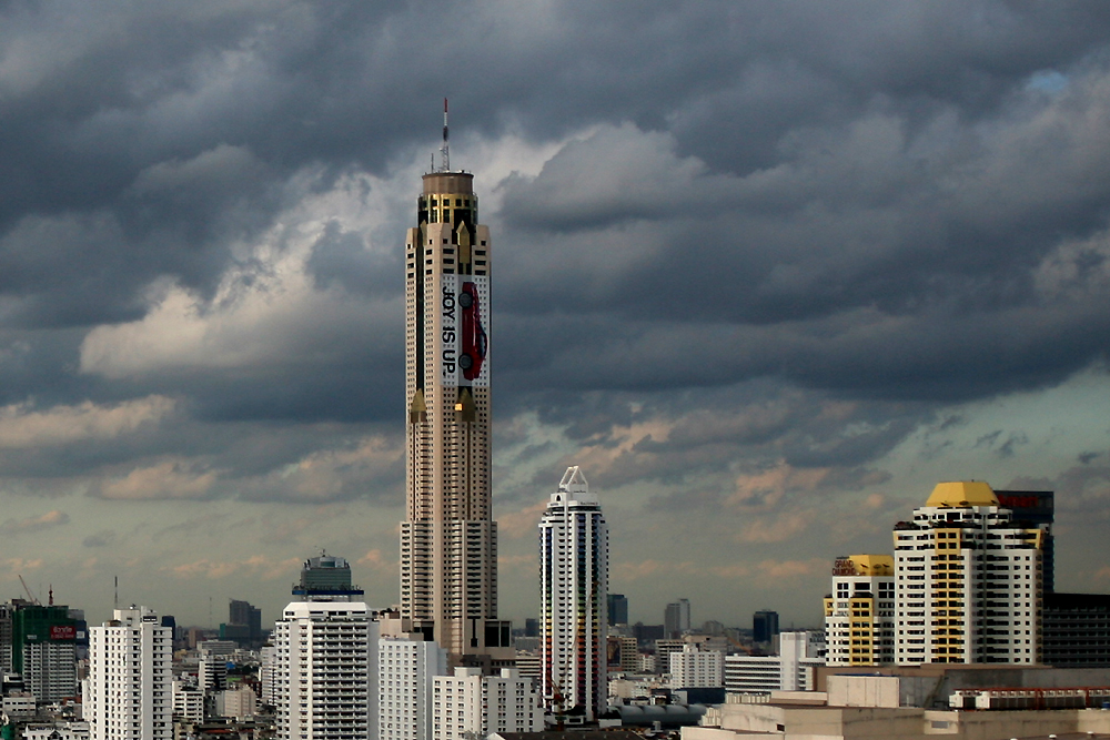 The Baiyoke Tower II in Bangkok, Thailand, and its surroundings